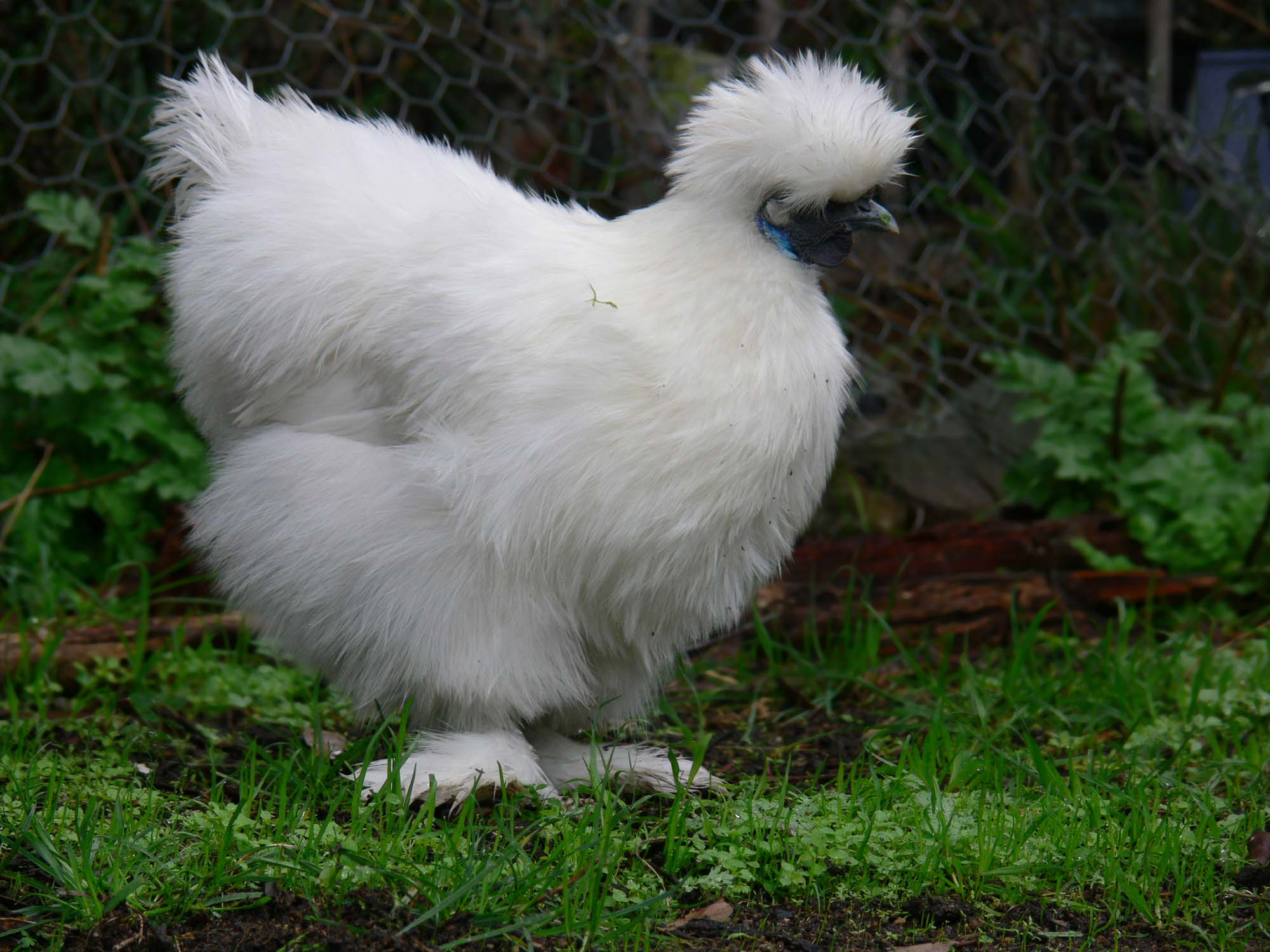 A Silkie is a miniature ornamental chicken